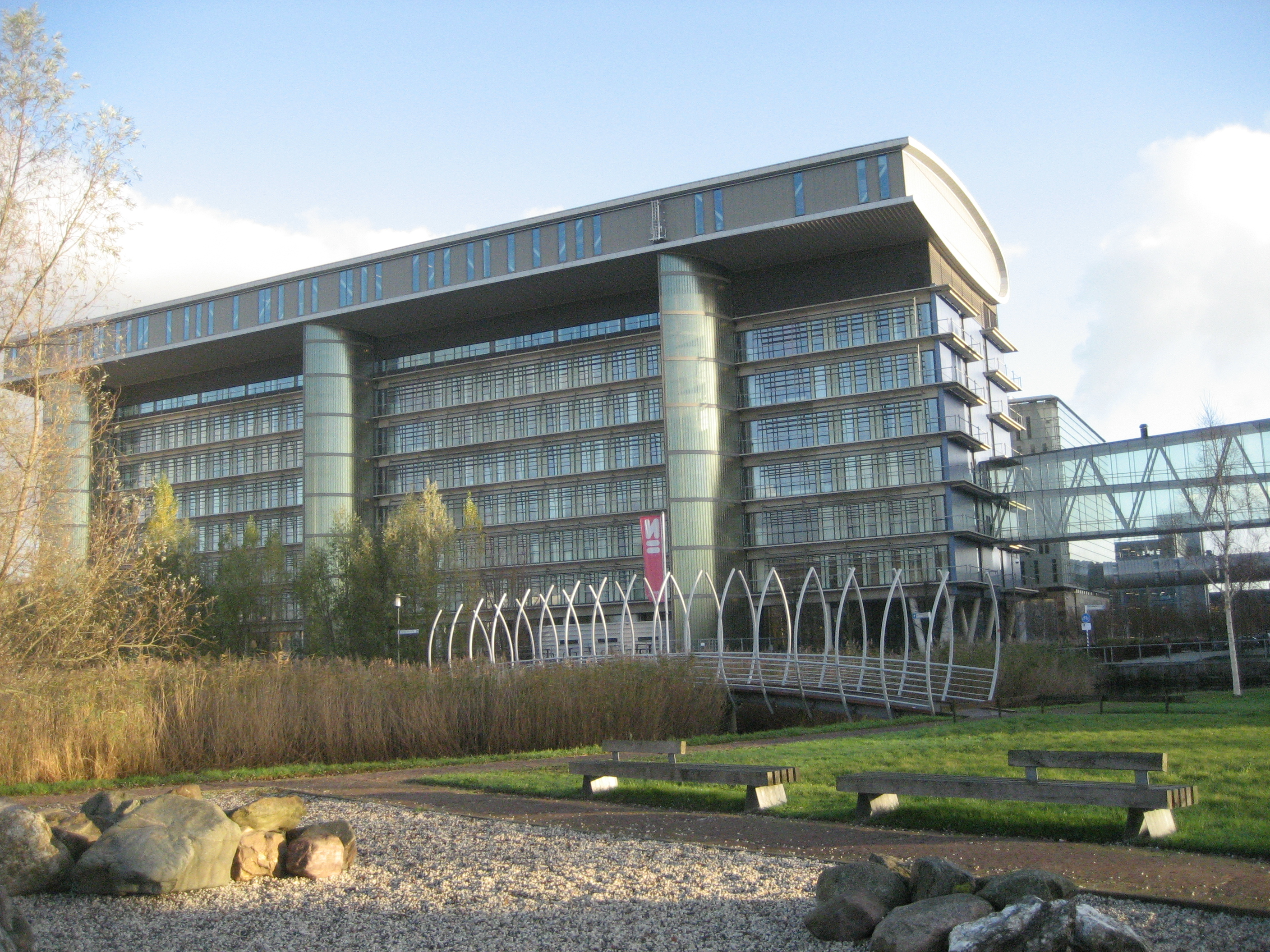 Leiden University Medical Centre (LUMC), Research Building, Einthovenweg 20, 2333 ZC Leiden (The Netherlands). Building 2. Built 2003-2005. EGM Architects